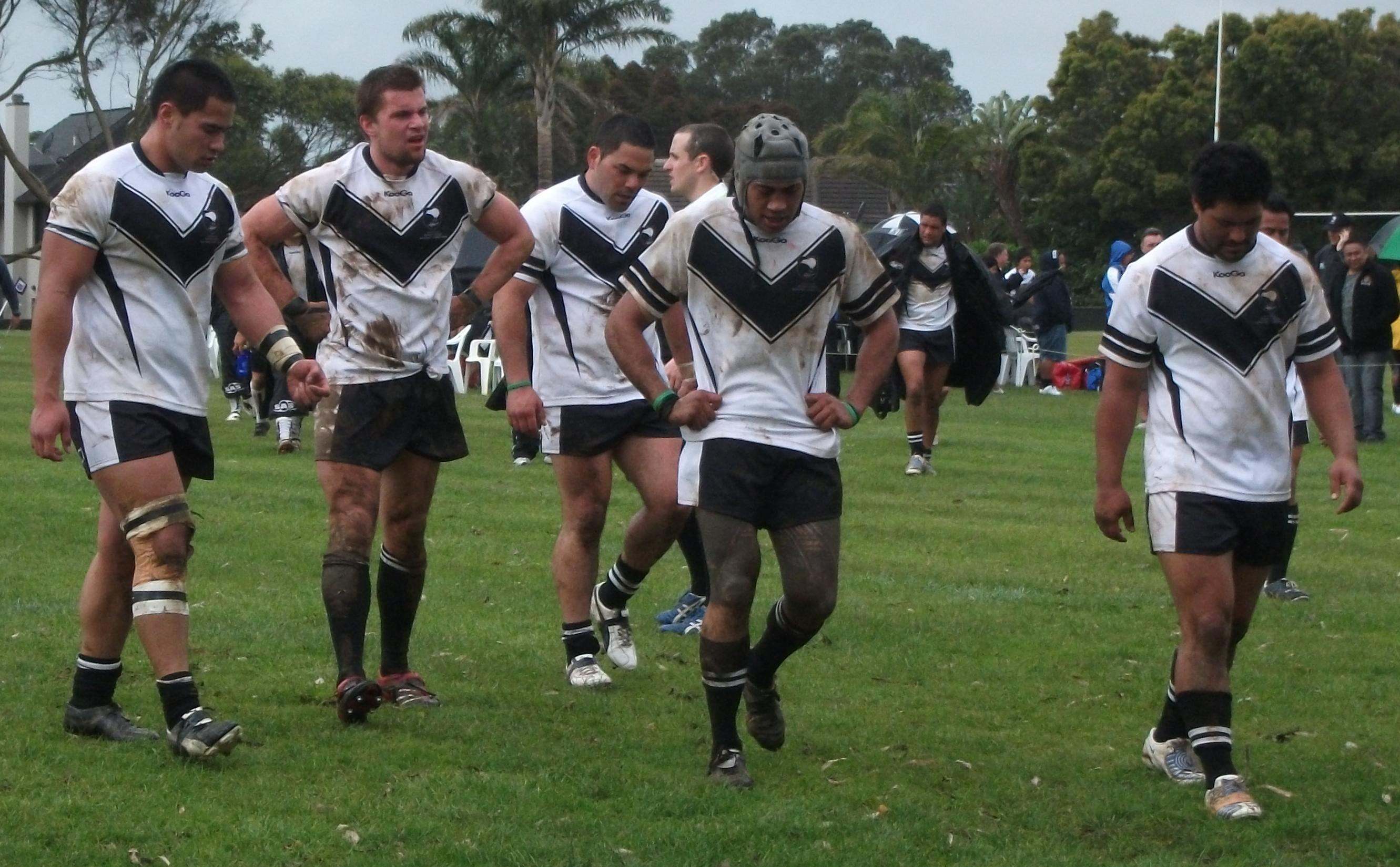 The South Island rugby league team coming off at halftime in the match vs the Auckland Zone rugby league team at Cornwall Park Stadium on 25 September 2010.